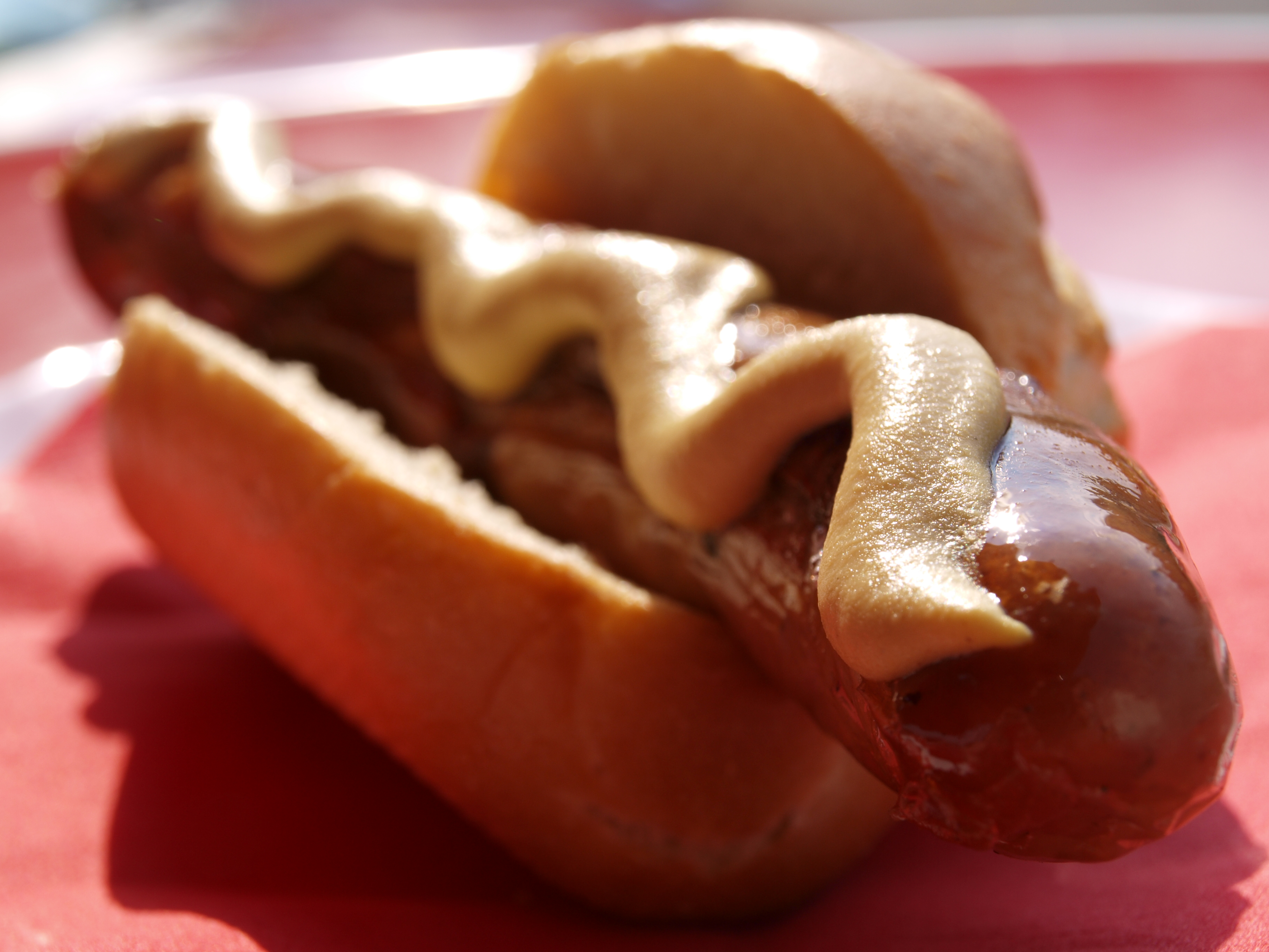 German 'Bratwurst' in a bun with mustard.